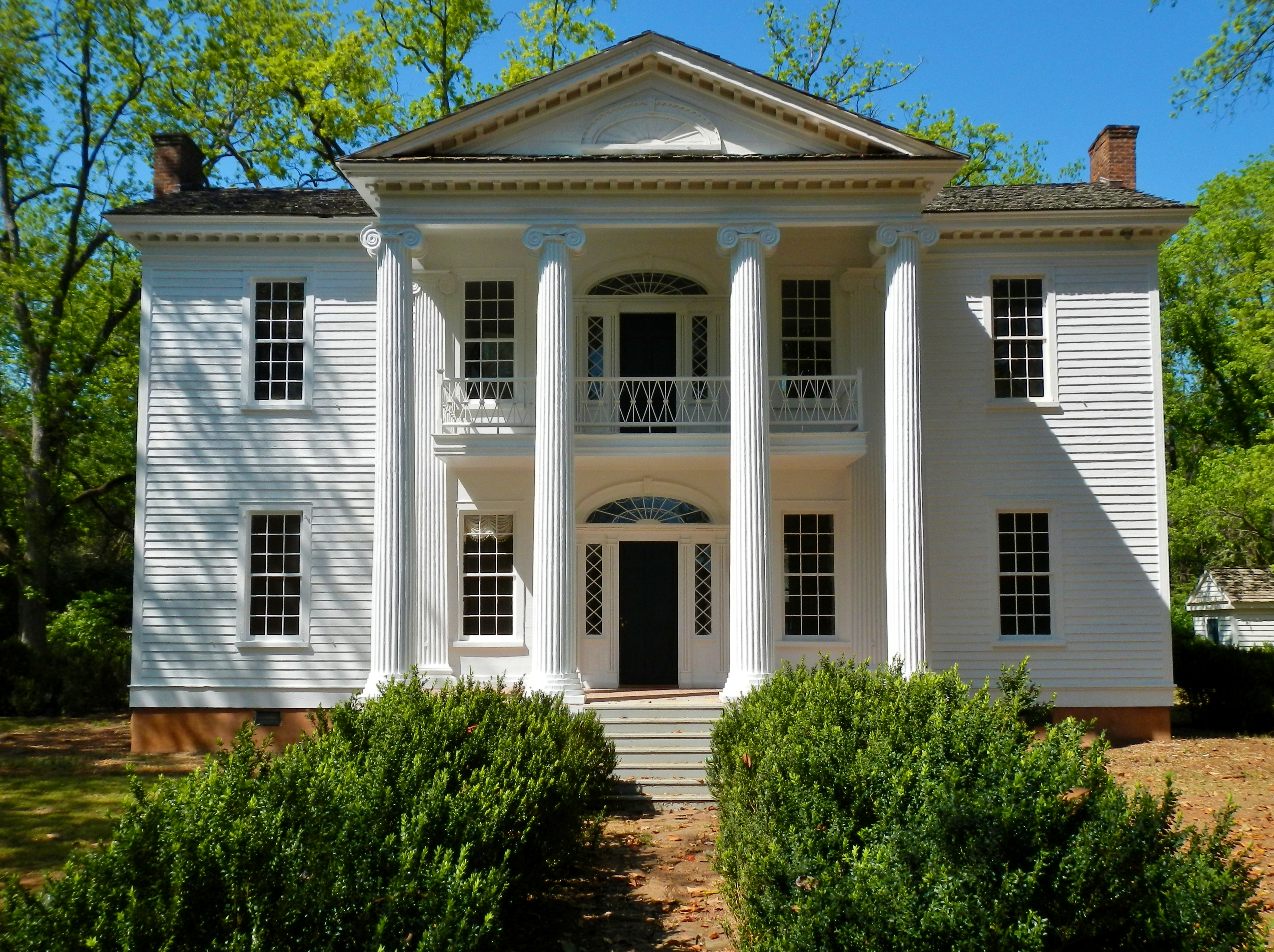 This is a photograph of Nutwood located in LaGrange, Georgia. It was added to the NRHP on 1974-05-08.